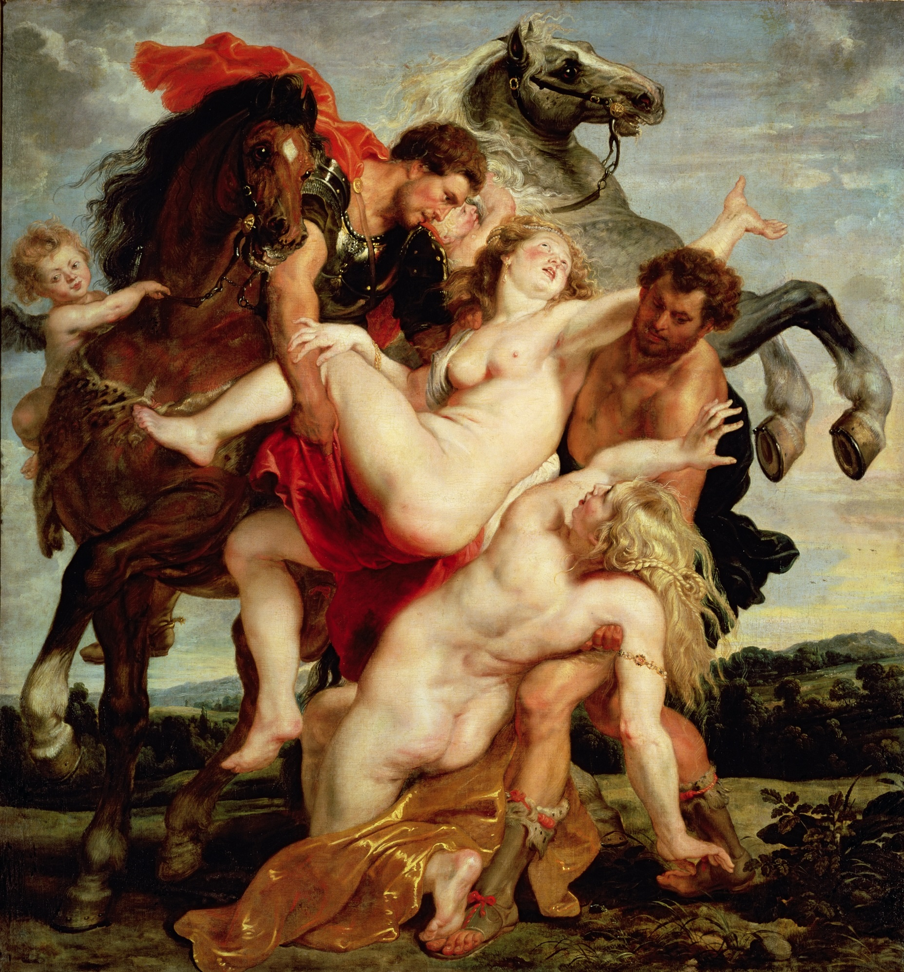 Castor and Pollux (Polydeuces), sons of Leda and Zeus, rape Hilaeira and Phoebe, the daughters of King Leucippus of Argos, shortly before their wedding.